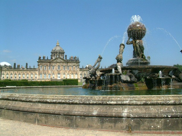 Castle Howard and fountain